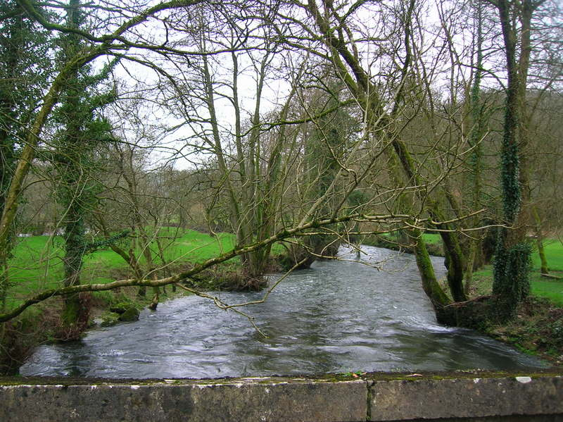 River Bray near Meethe A downstream view of the river Bray just before it meets the Mole.